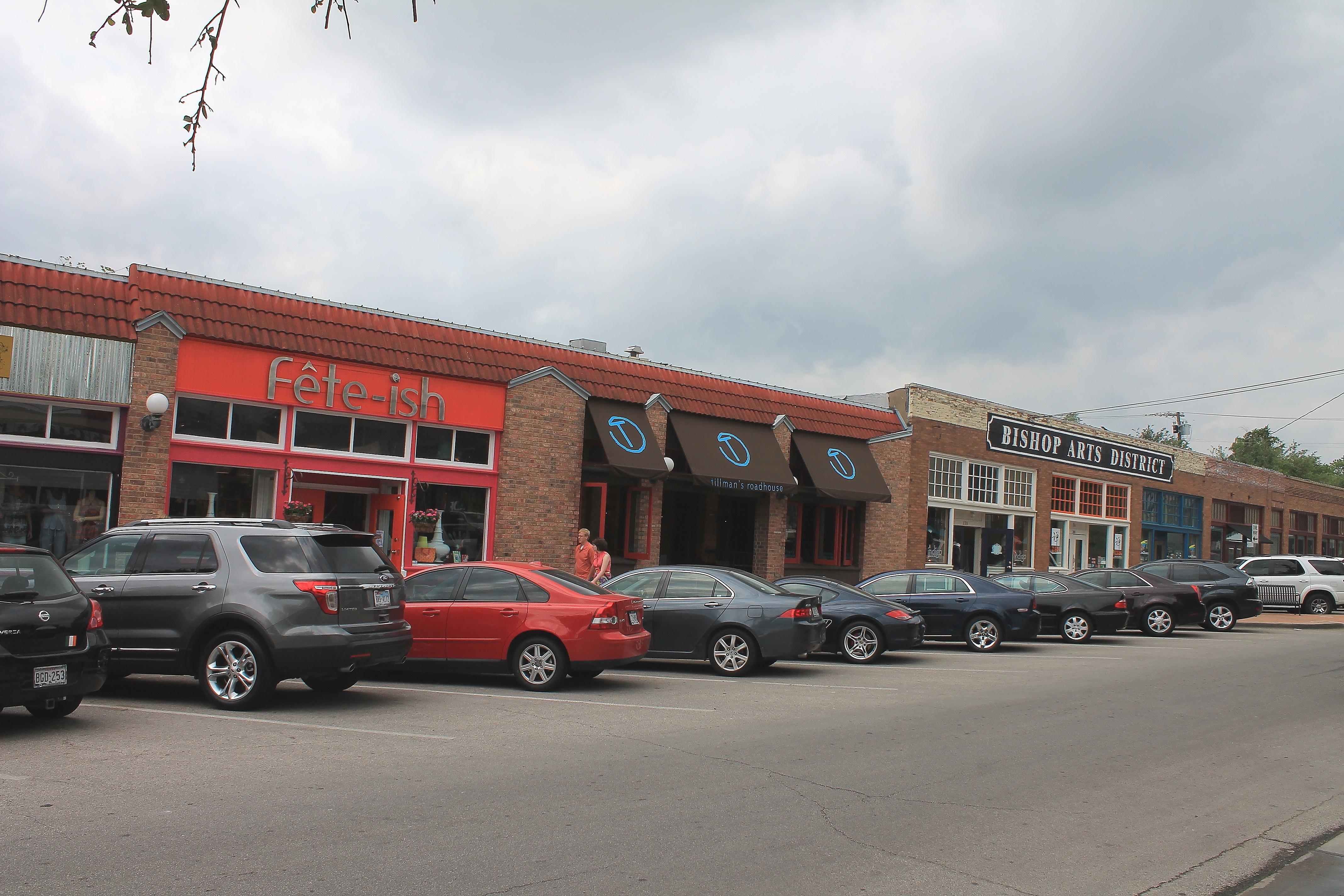 North Bishop Avenue Commercial Historic District